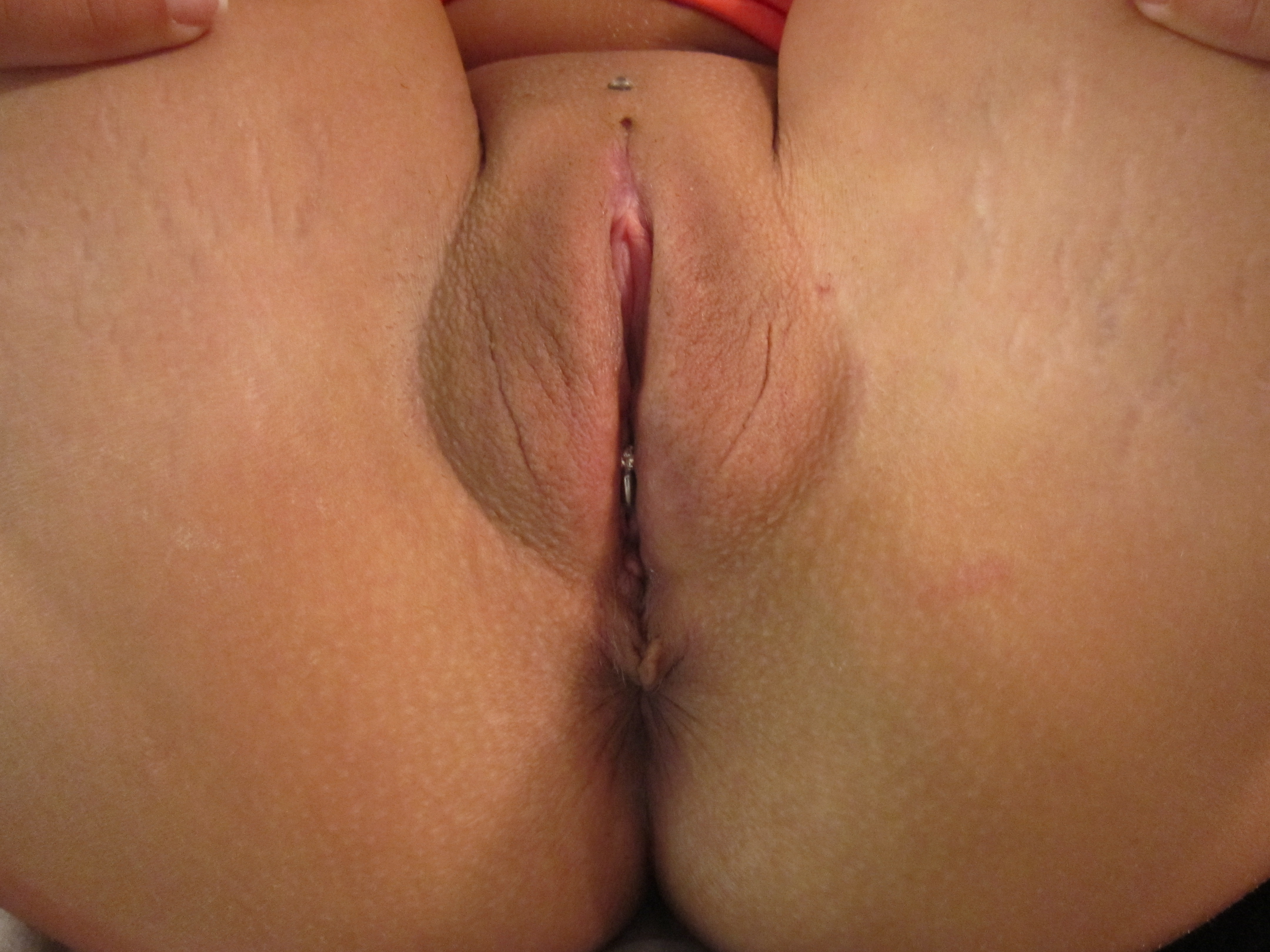 Labiaplasty with clitoral hood reduction and Princess Albertina piercing